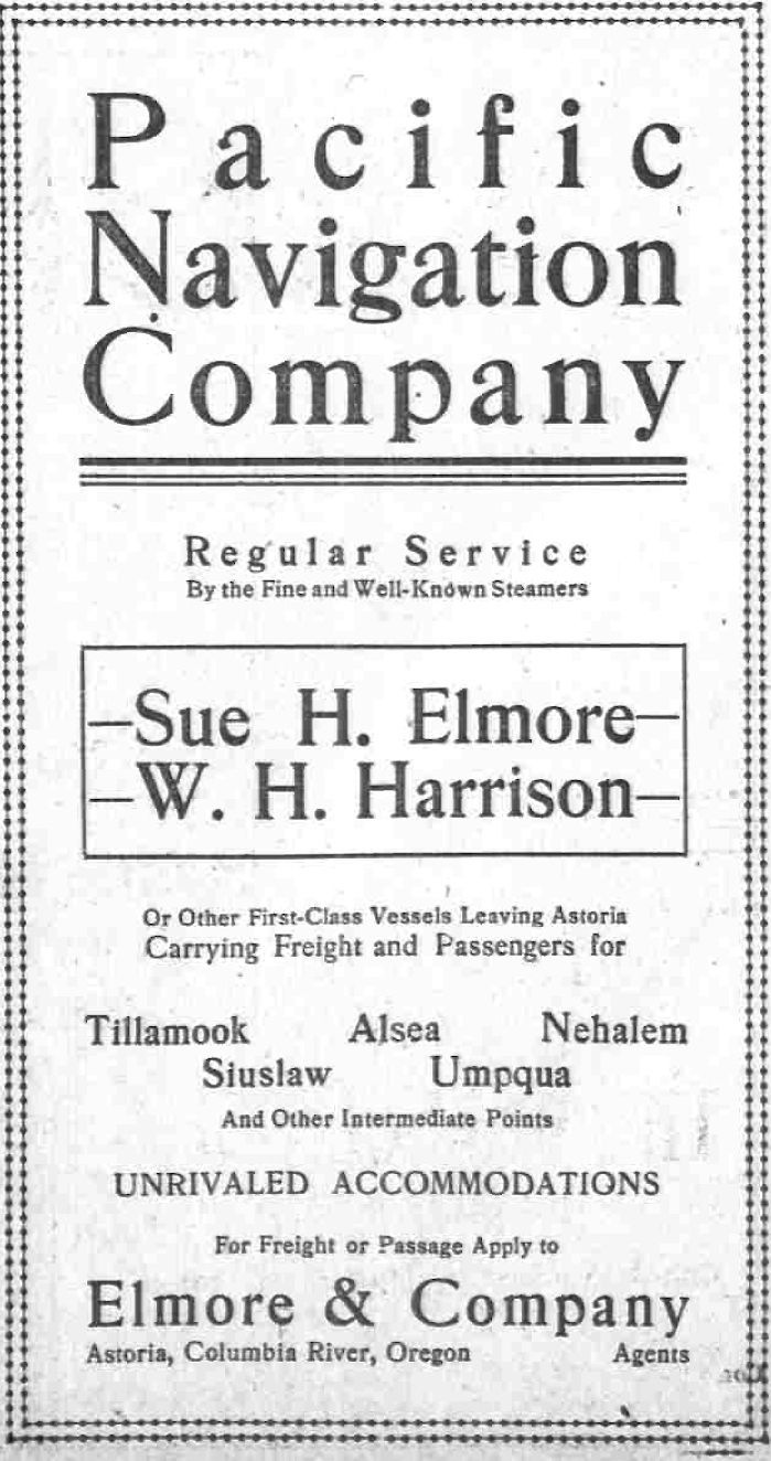 Advertisement for the Pacific Navigation Company published in the Morning Oregonian, on January 1, 1904.